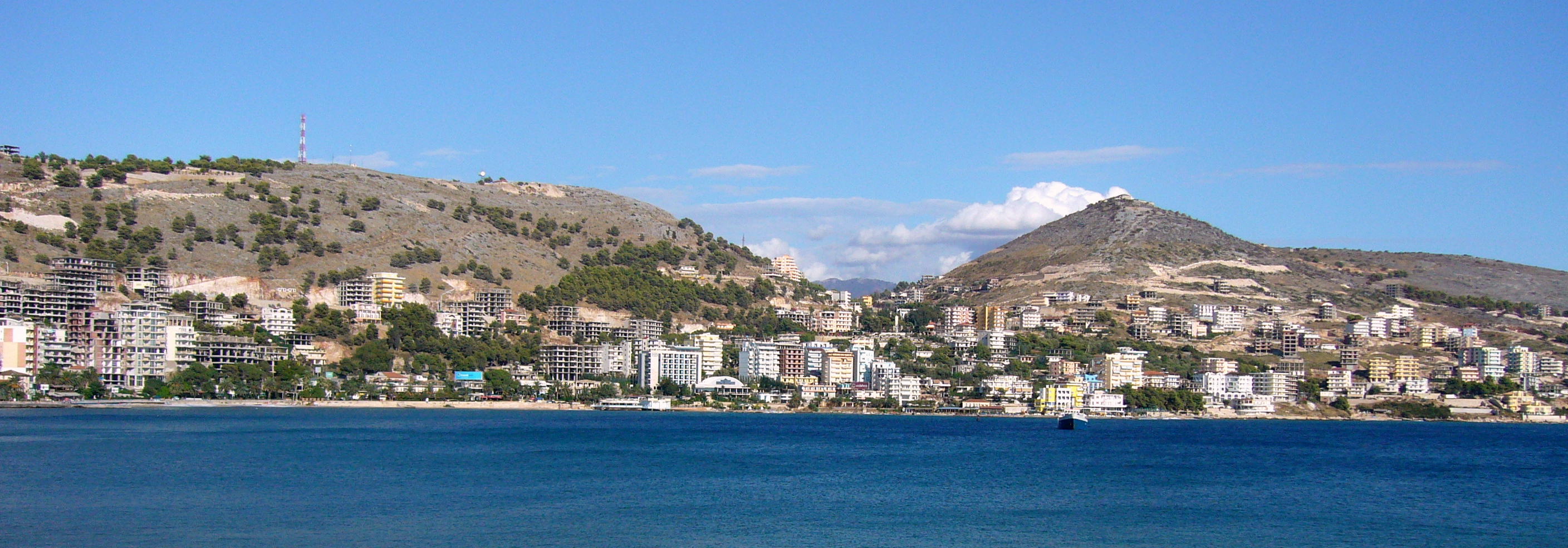 New buildings in Sarande